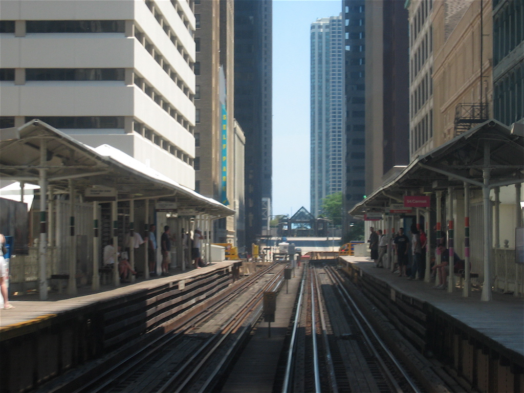 State/Lake station in the Chicago Loop